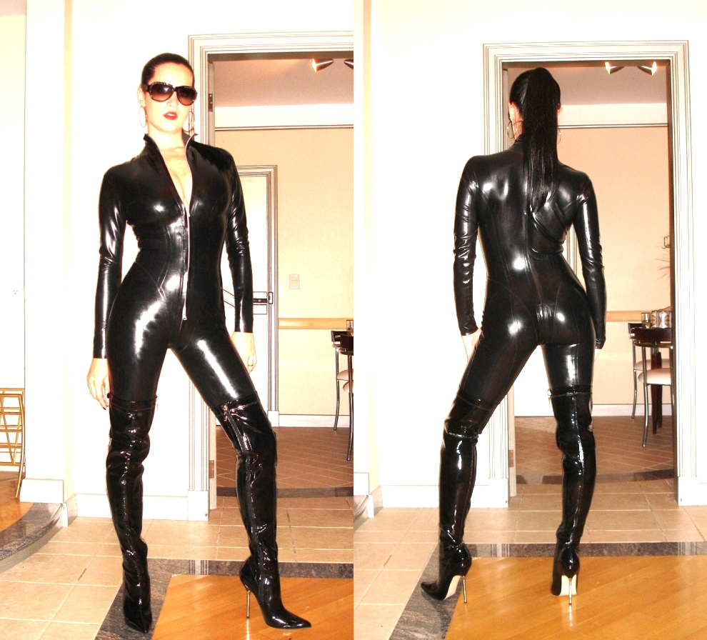 Woman wearing a black latex catsuit by House of Harlot